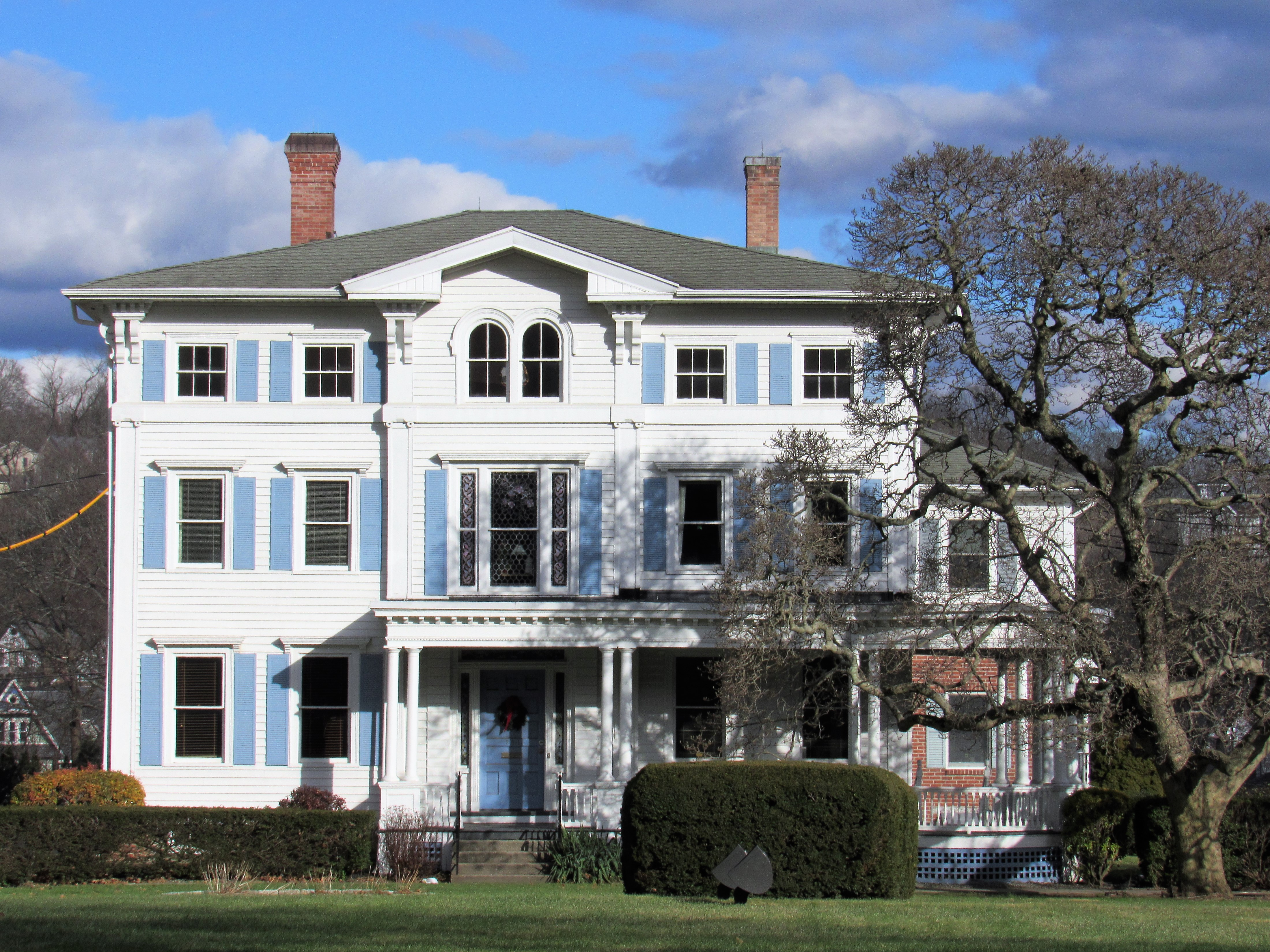 Chancery, Catholic Diocese of Norwich, Norwich, Connecticut.